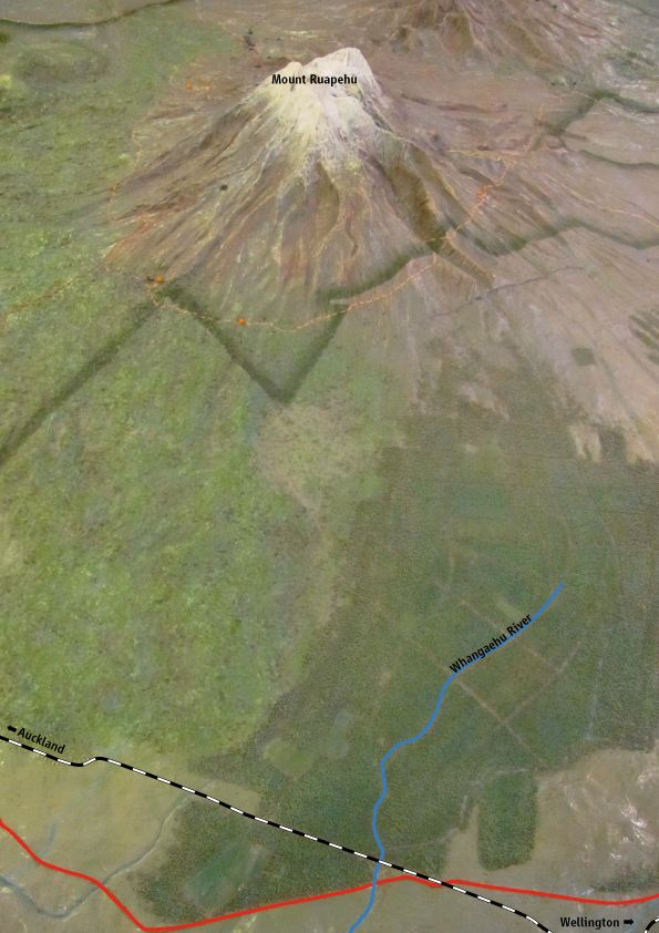 Site of rail crash near Tabgiwai, NZ, 1953: Mount Ruhapehu, North Island Main Trunk, Whangaehu River.